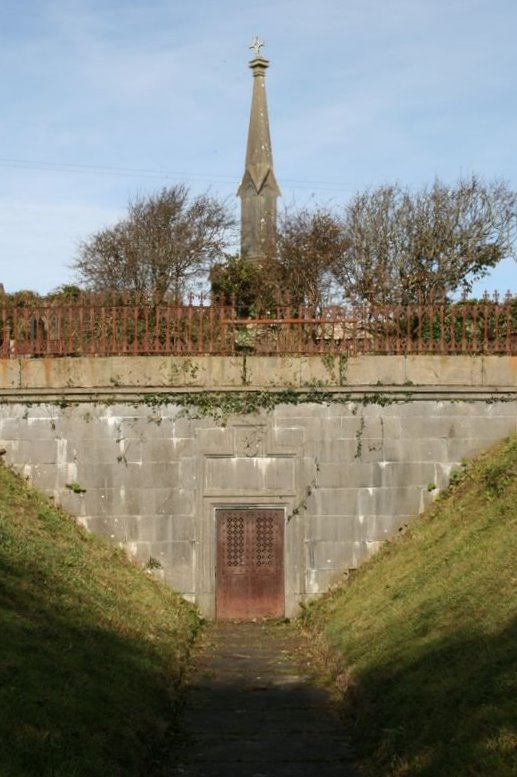 Mausoleum of Cornelius O Brien Landlord Liscannor Birchfield